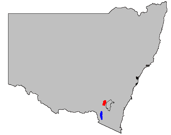 Distribution of the Southern Corroboree Frog (Pseudophryne corroboree) in blue and the Northern Corroboree Frog (Pseudophryne pengilleyi) in red.